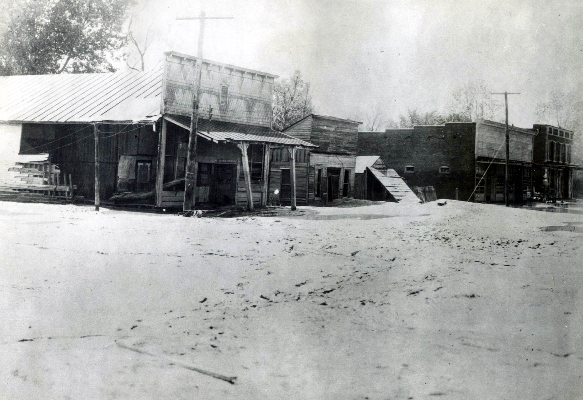 Down Town Columbus about 1920